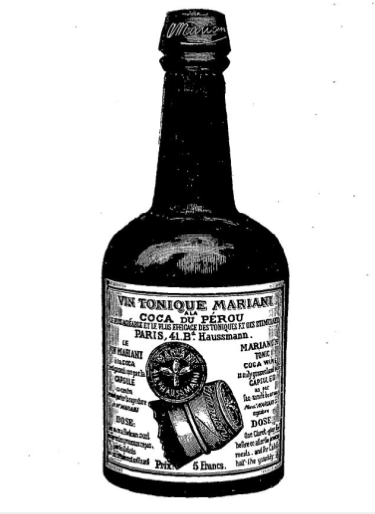 Picture of a bottle of "Vin tonique Mariani à la coca du Pérou", printed in 1894 in the first album Mariani (Paris, E. Flammarion).